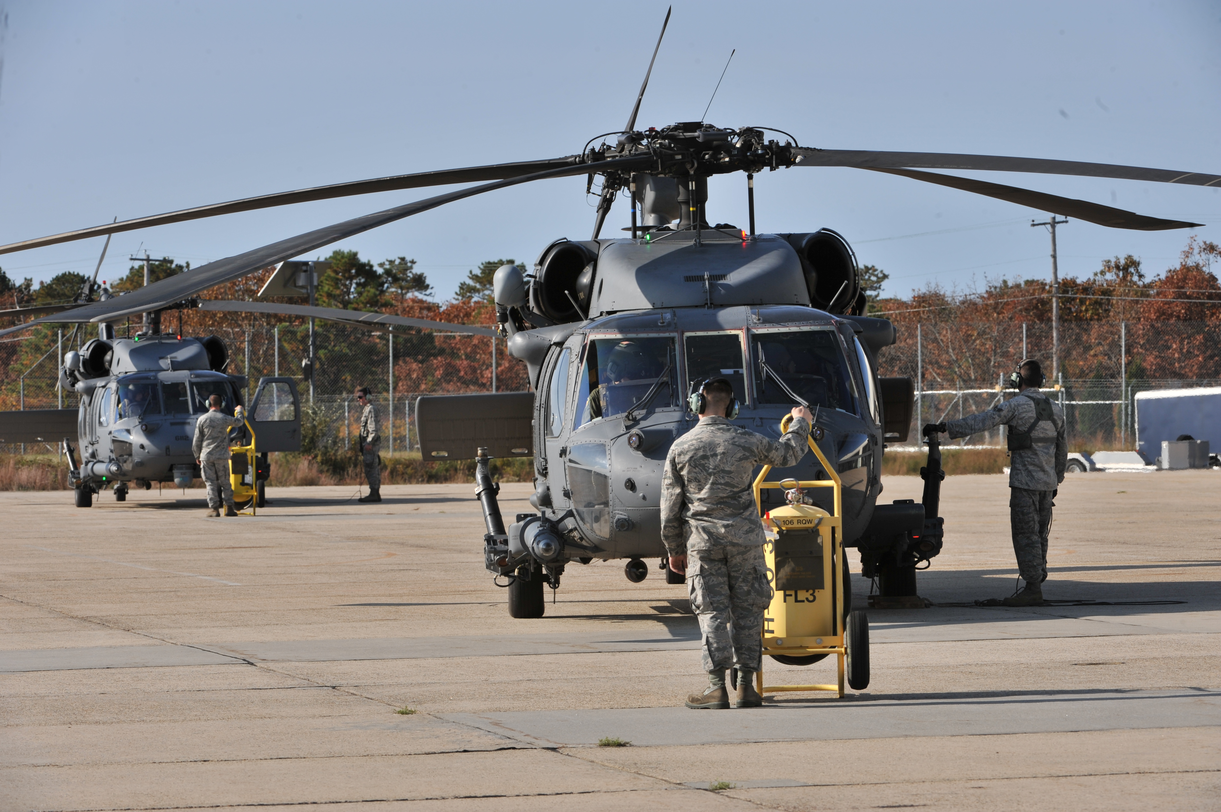 Aircraft from the 106th Rescue Wing depart F.S. Gabreski Air National Guard Base in preparation of Hurricane Sandy. The aircraft are repositioned out of the storm track and are prepare to return for recovery response operations. The 106th Rescue Wing’s mission is to provide worldwide Personnel Recovery, Combat Search and Rescue Capability, Expeditionary Combat Support, and Civil Search and Rescue support to Federal and State authorities. The unit provides Personnel Recovery to the state of New York and deployed operations that we are tasked to support. (Official U.S. Air Force Photo by TSgt Eric Miller/Released) 121026-Z-QU230